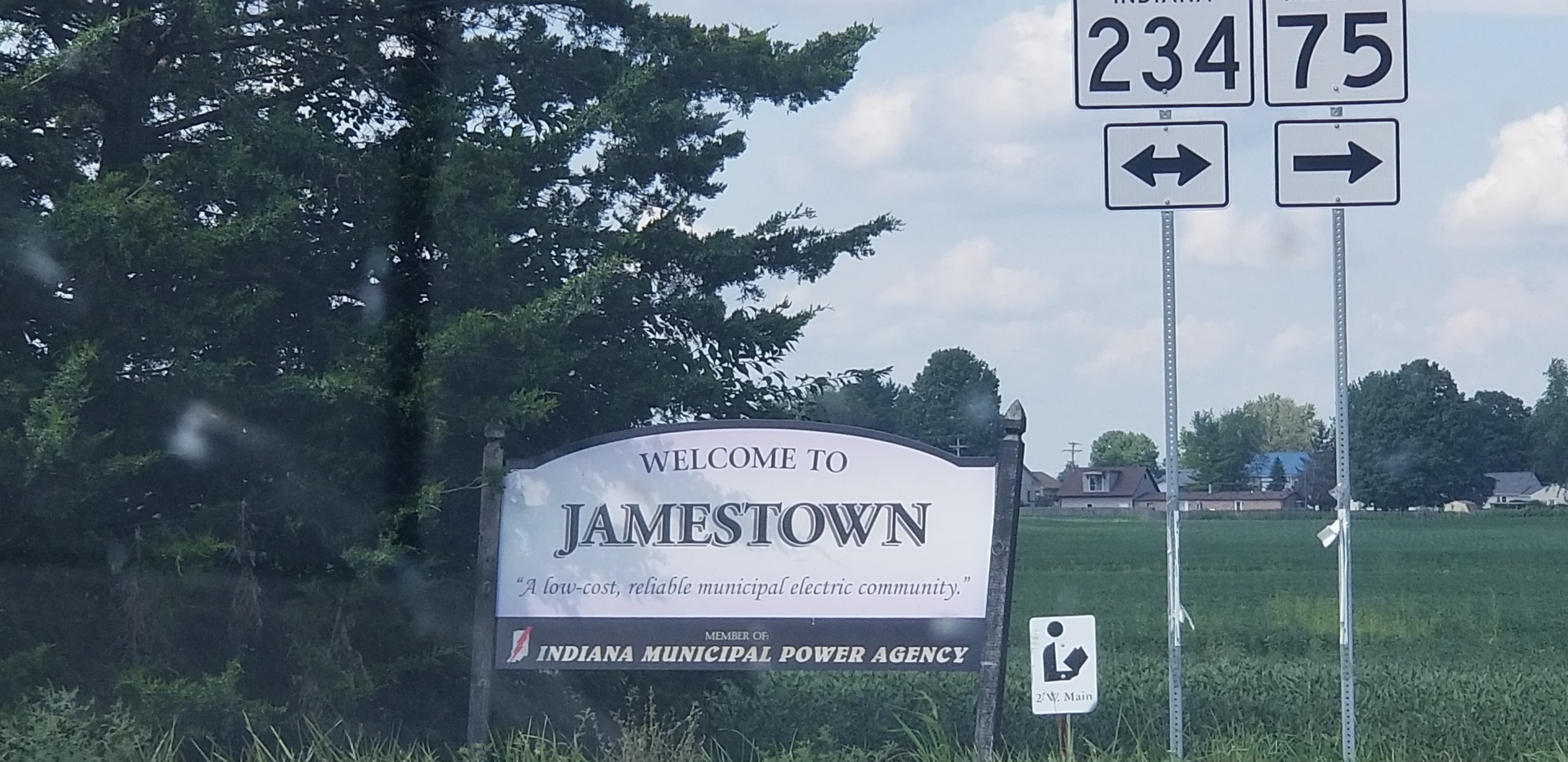 Sign welcoming people to.